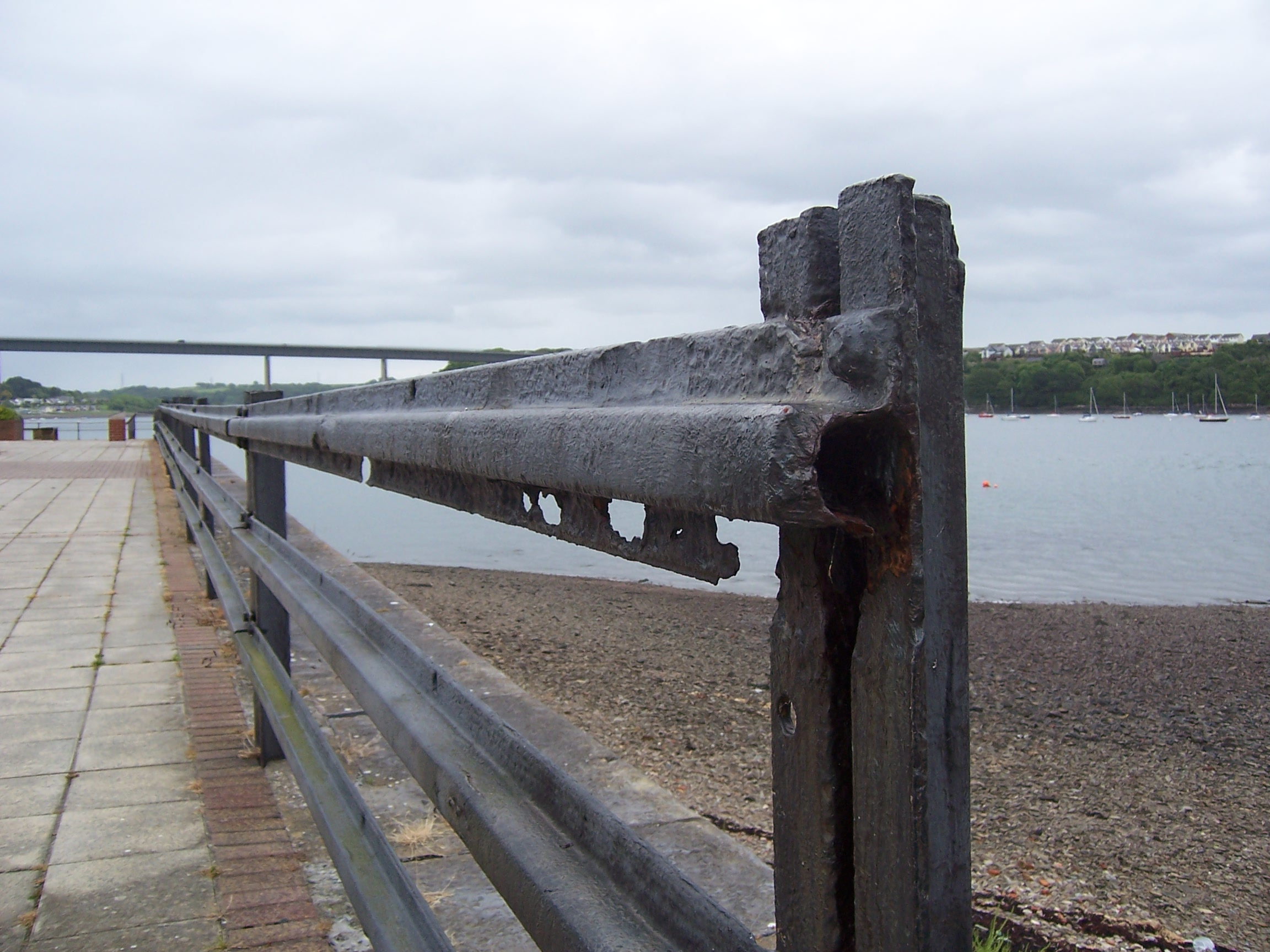 Original Brunel broad gauge 'bridge' rail now used as barriers at Neyland, Pembrkeshire